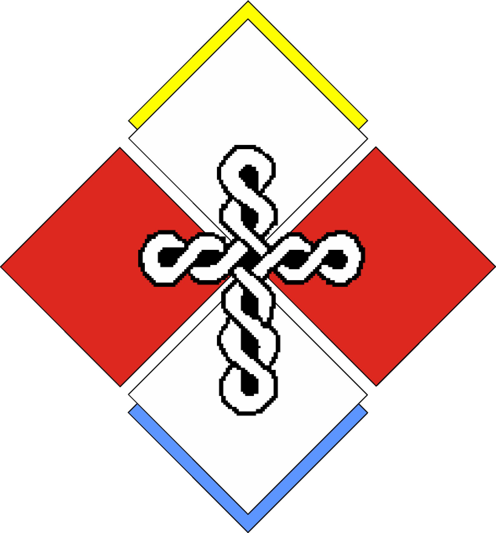 This is a representation of the logo of the Bishops' Conference of Bosnia and Herzegovina